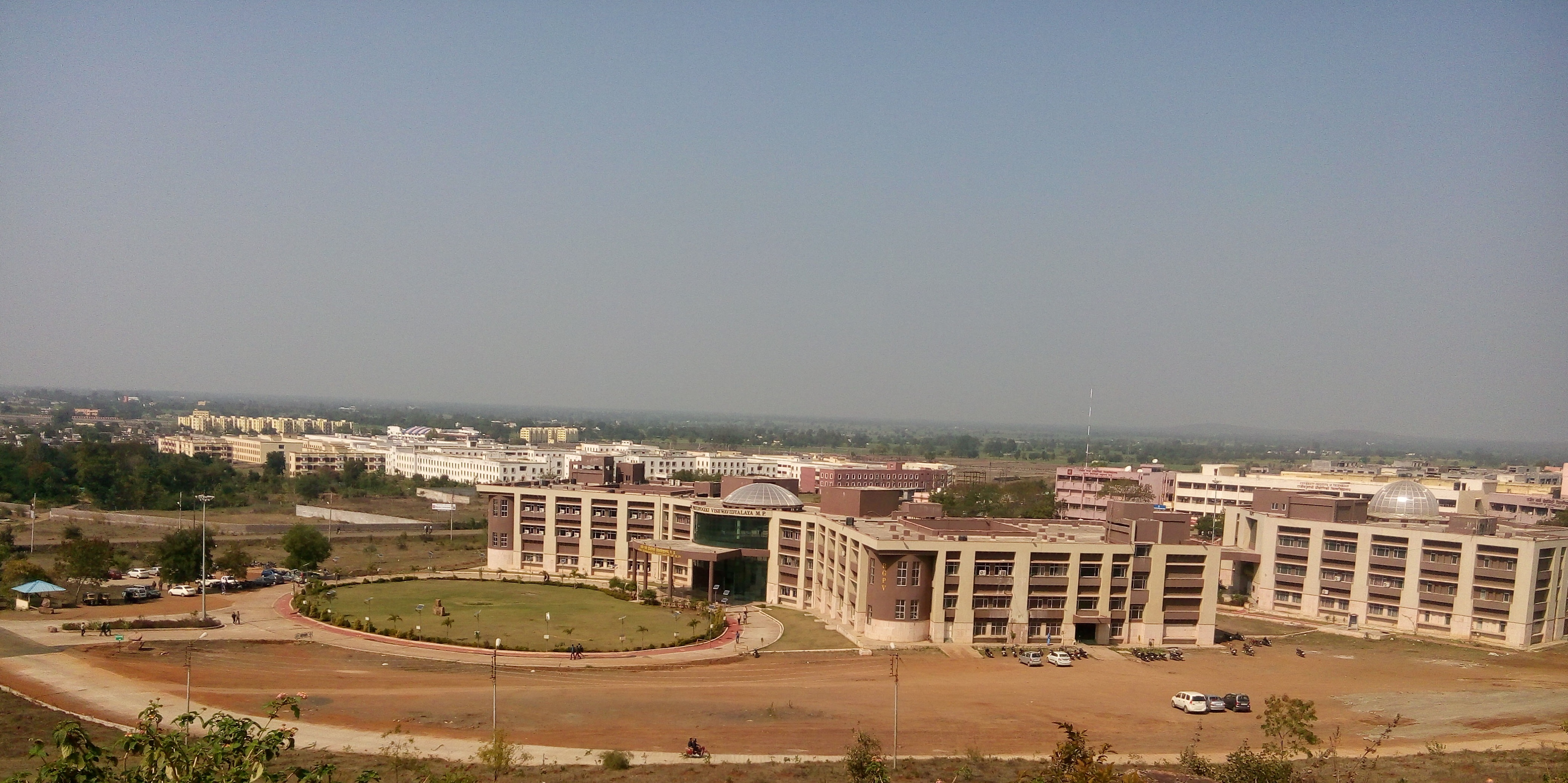 RGPV Main Building behind is RKDF University